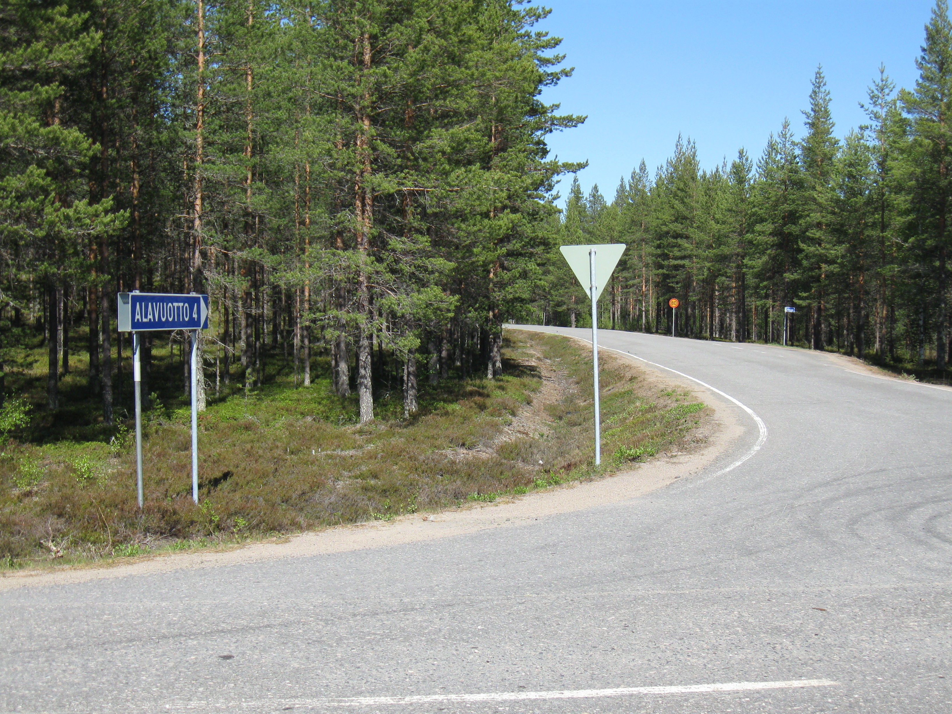 Local road 18723 towards Alavuotto, in Ylikiiminki, Oulu, Finland, at the crossing of regional road 836.